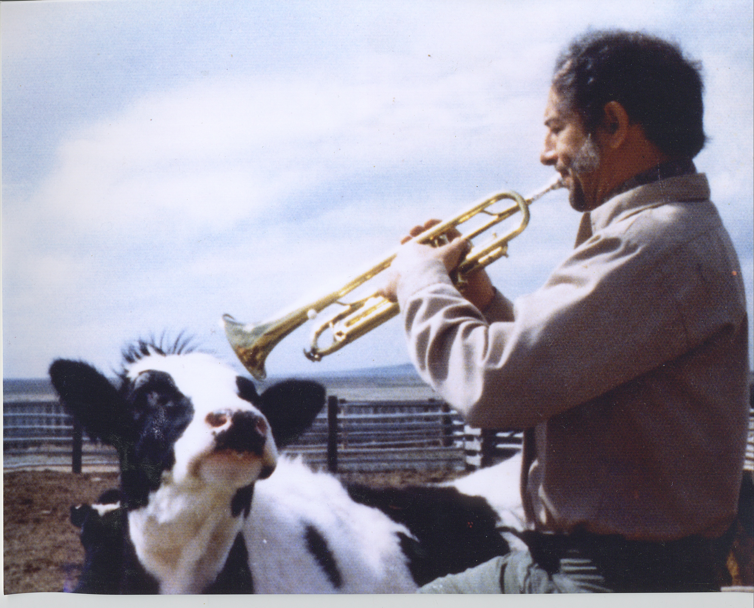 Tony Terran playing for a cow